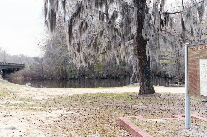 Site of the March 3, 1779 Battle of Brier at modern Brannen's Bridges. In the foreground is the historical marker denoting the battle site. In the background can be seen the riverine watercourse of Brier Creek. This picture was taken by the author's cousin W. 'Scottie' Scott on March 3, 2007.